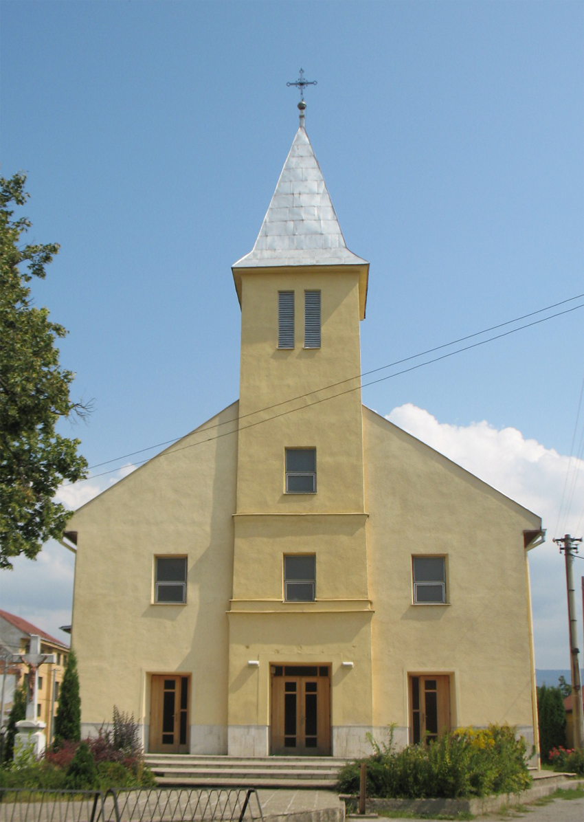 Rom. Cath. Church of Čaňa